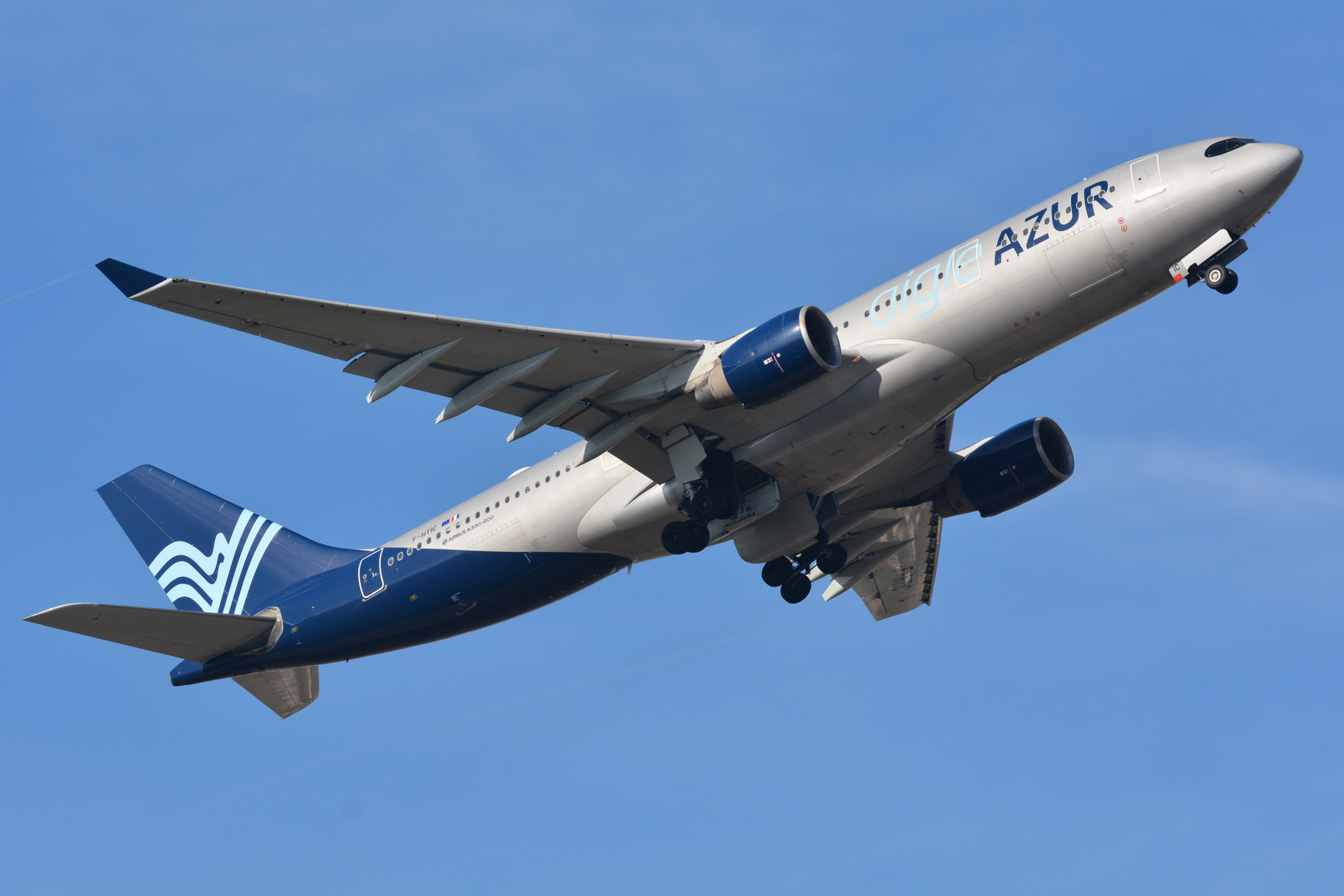 Paris-Orly Airport